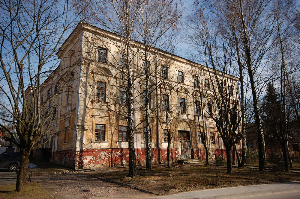 Sapieha Palace in Vilnius, 2009